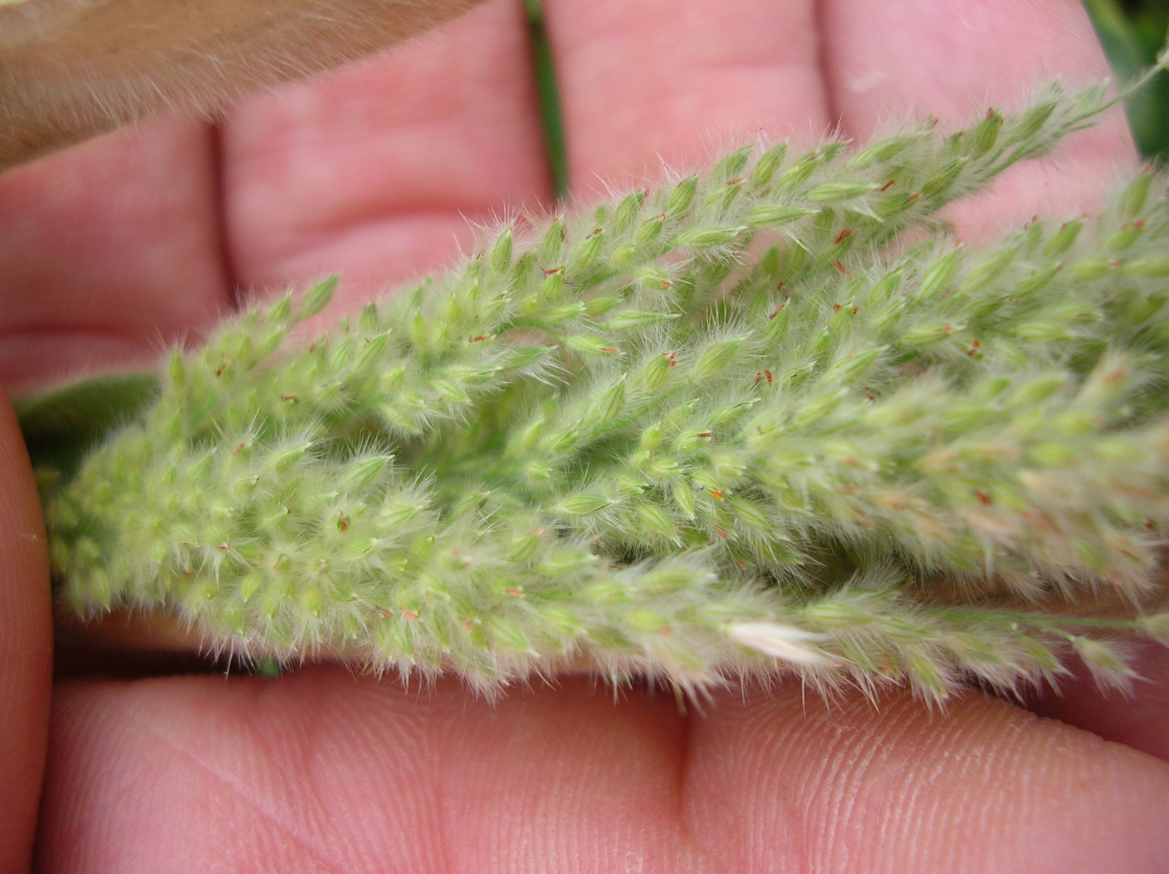 Panicum torridum (seeds). Location: Maui, Punalau